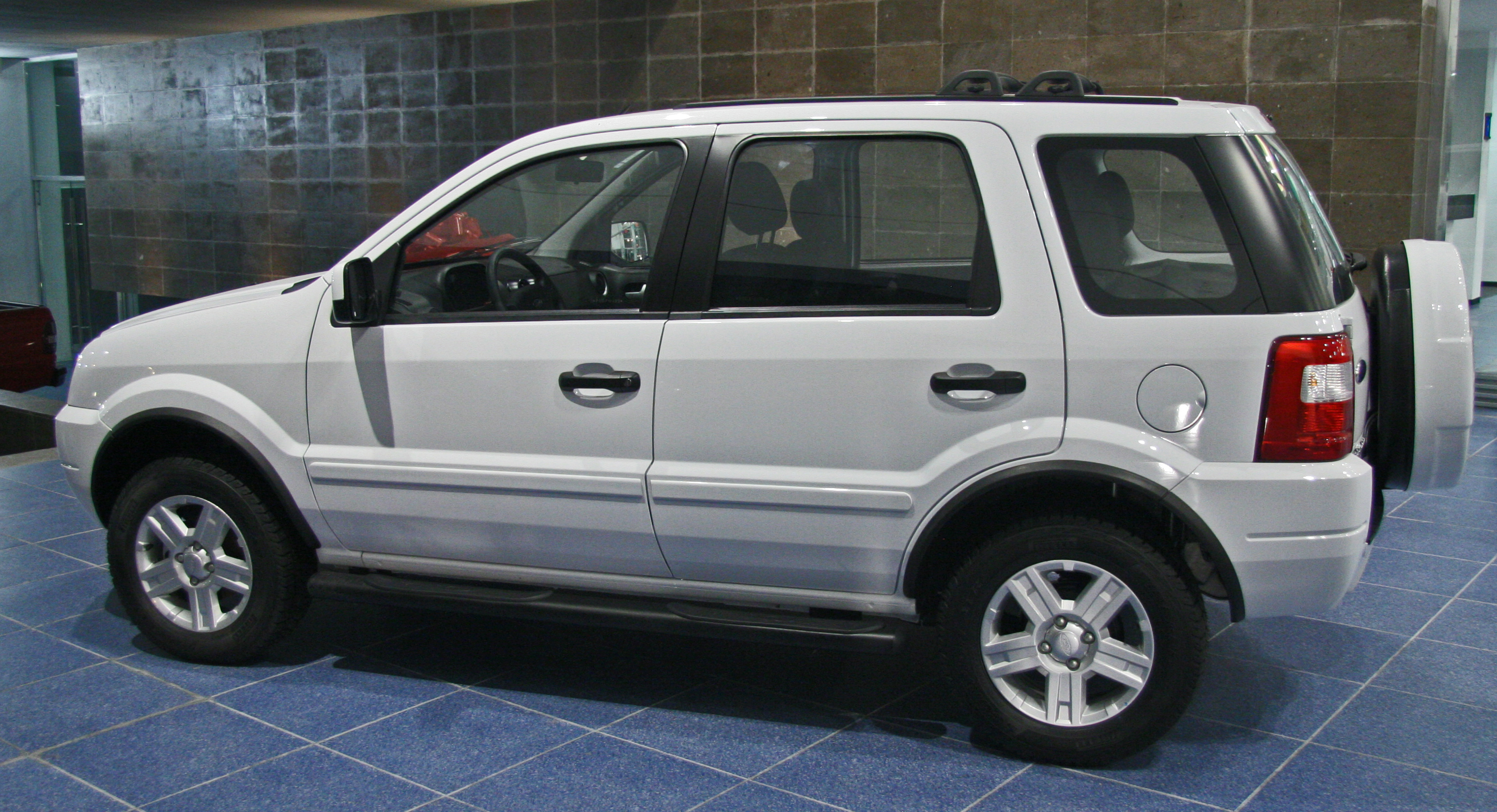 One of my pet gripes when we visit South America is that they got the EcoSport and we, in Europe, got the Fusion. Both are built on the same platform - the Ford Fiesta. The EcoSport looks like (and is available as) a 4X4. The Fusion? Well CAR magazine simply has For: Slightly taller than a Fiesta; Against: Utterly pointless. Autoexpress seems to agree with me too. I photographed this EcoSport in a Ford showroom in Mexico - much to my wife's bemusement...Ford EcoSport